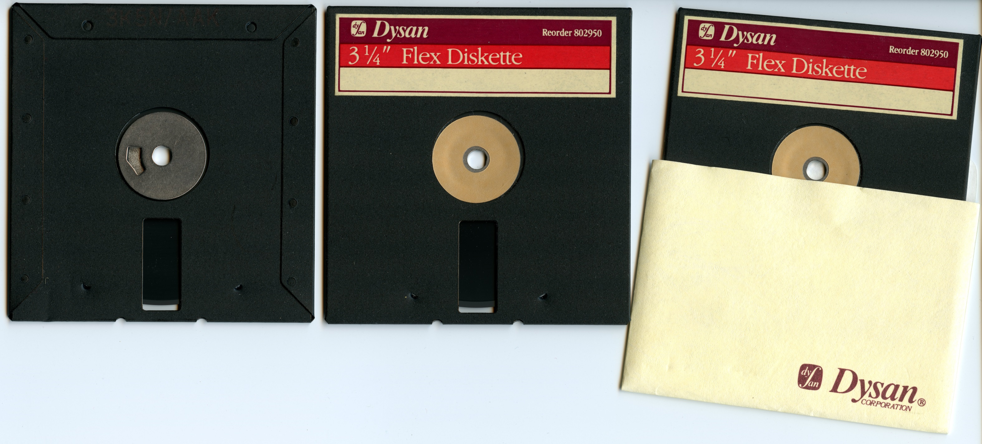 Dysan Corporation prototype 3-1/4" floppy disc. "Flex Diskette"